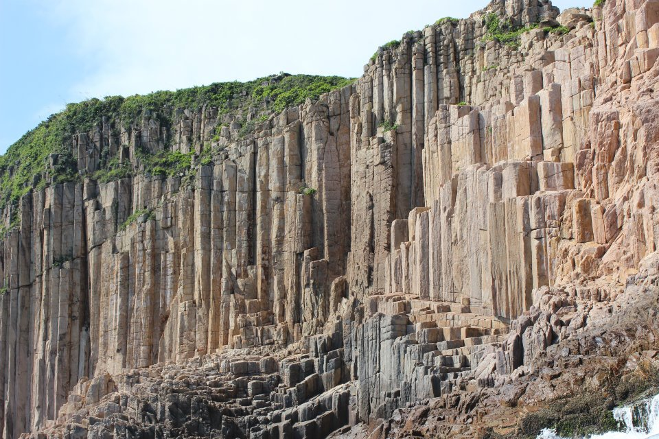 Hexagonal volcanic tuffs at Hong Kong Geo Park